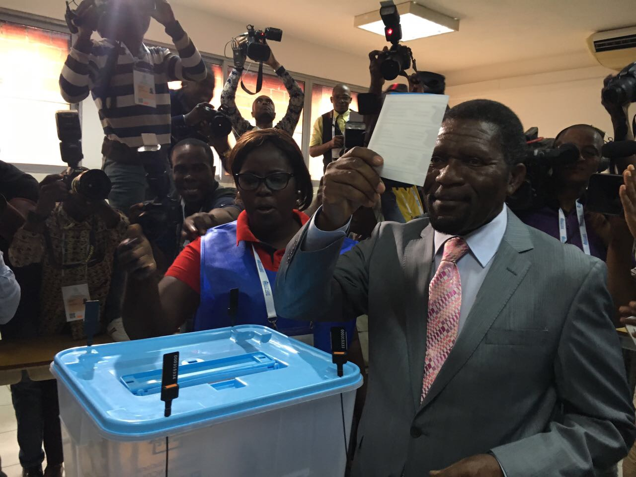 Isaías Samakuva, leader of the UNITA, votes in Luanda